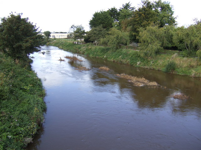 River Deel Just to the west of Rathkeale, Co. Limerick.